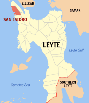 Map of Leyte showing the location of San Isidro